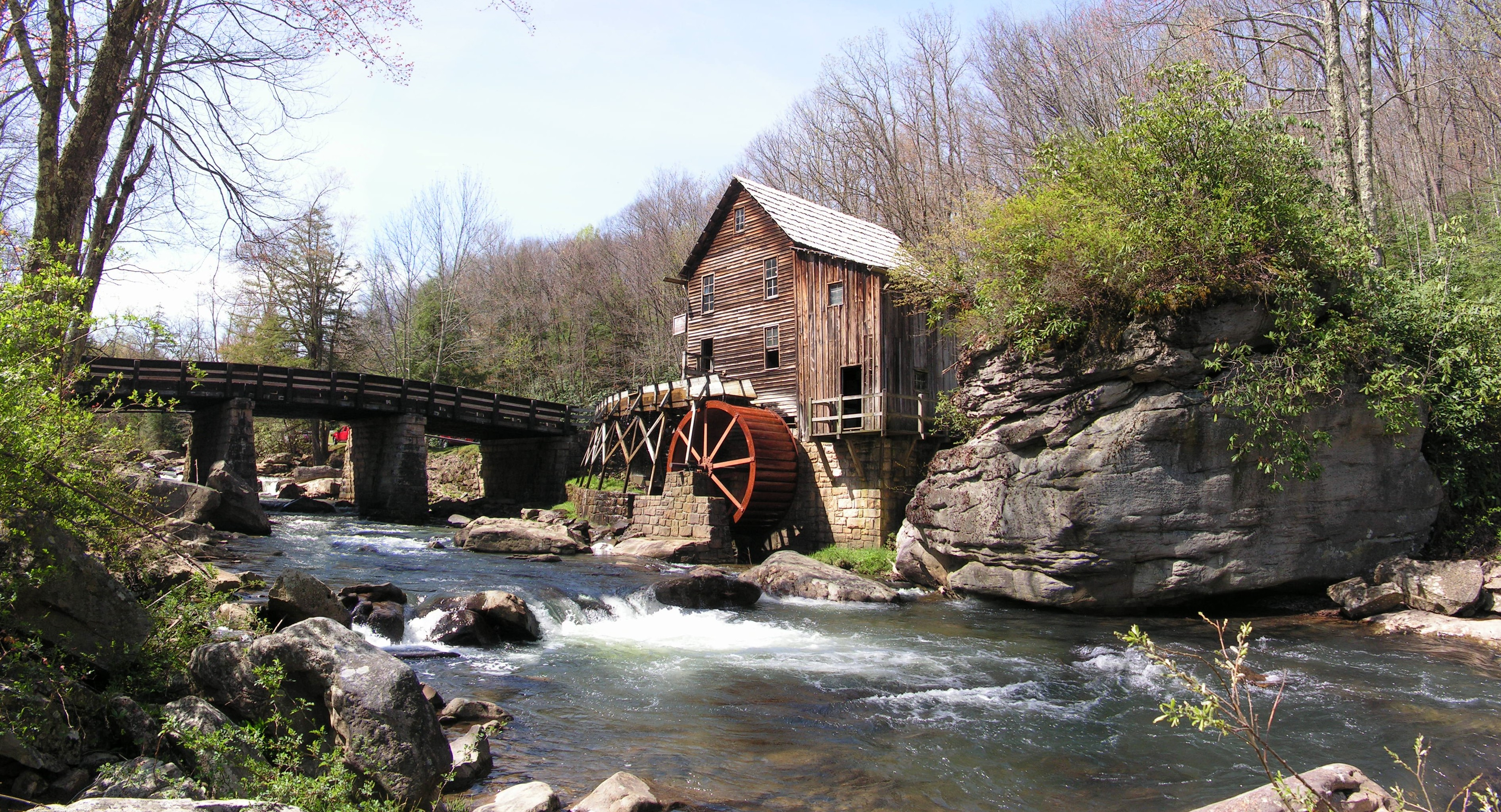 The Glade Creek Grist Mill, an iconic West Virginia attraction in Babcock State Park, WV, USA. This semi-panorama was assembled from six separate parts, each taken with the same aperture and shutter settings for maximum compatibility. I used Paint Shop Pro 8, my graphic tablet, and my favorite method of erasing the layers into each other for assembly. The EXIF tag is a mockup from the bottom central picture, but most of the info should be correct, except for the image size.